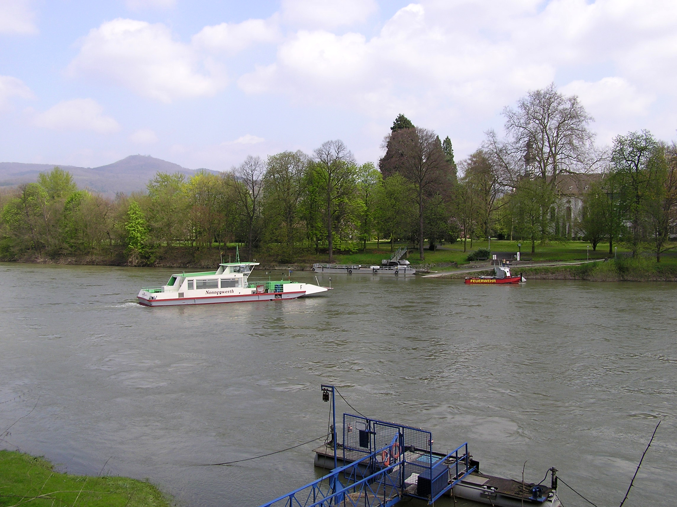 Ferry to the Nonnenwerth Island in the Rhine, Germany. In the background the Siebengebirge mountains.